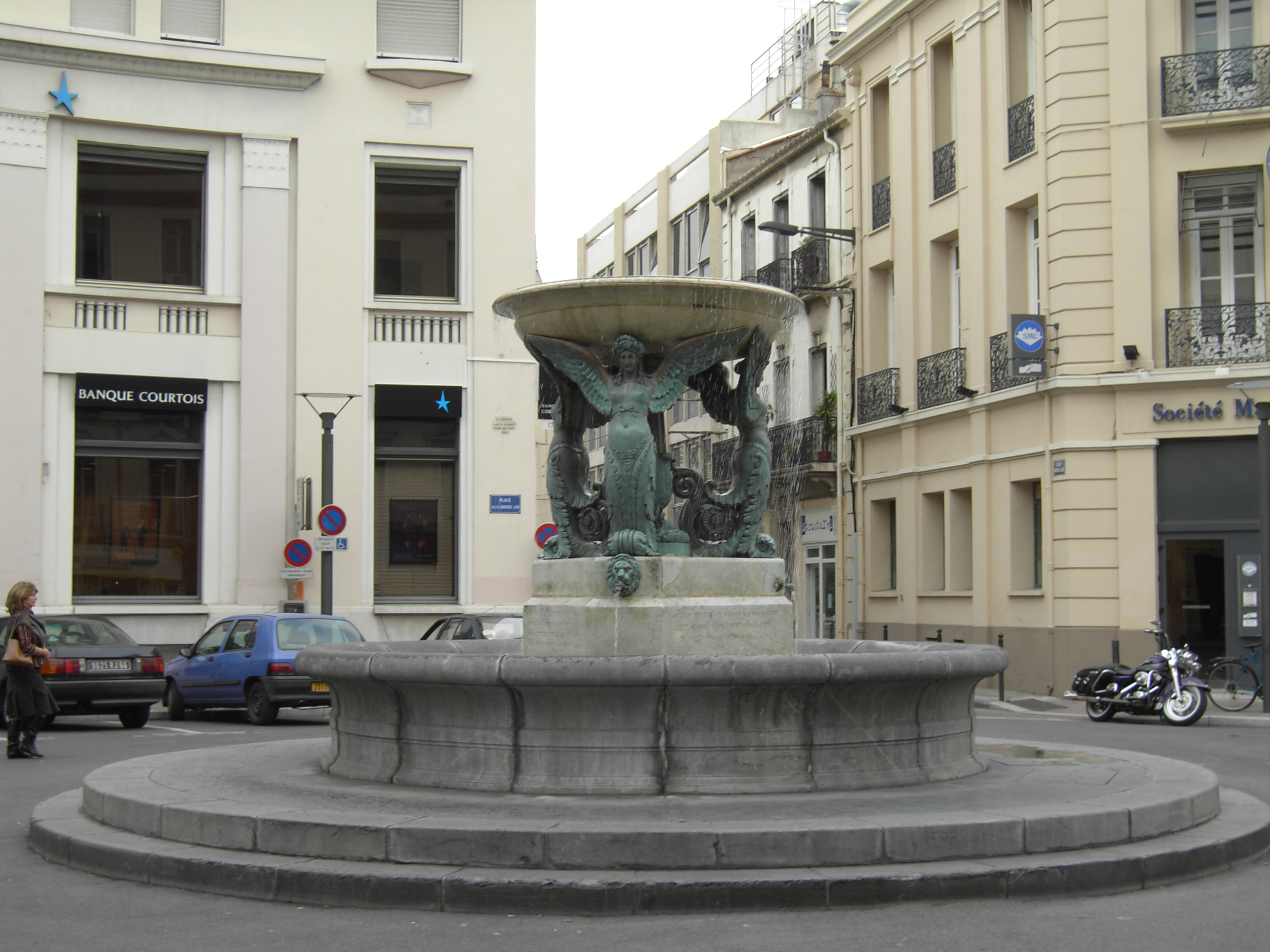 Siren fountain in the center of Perpignan, France.